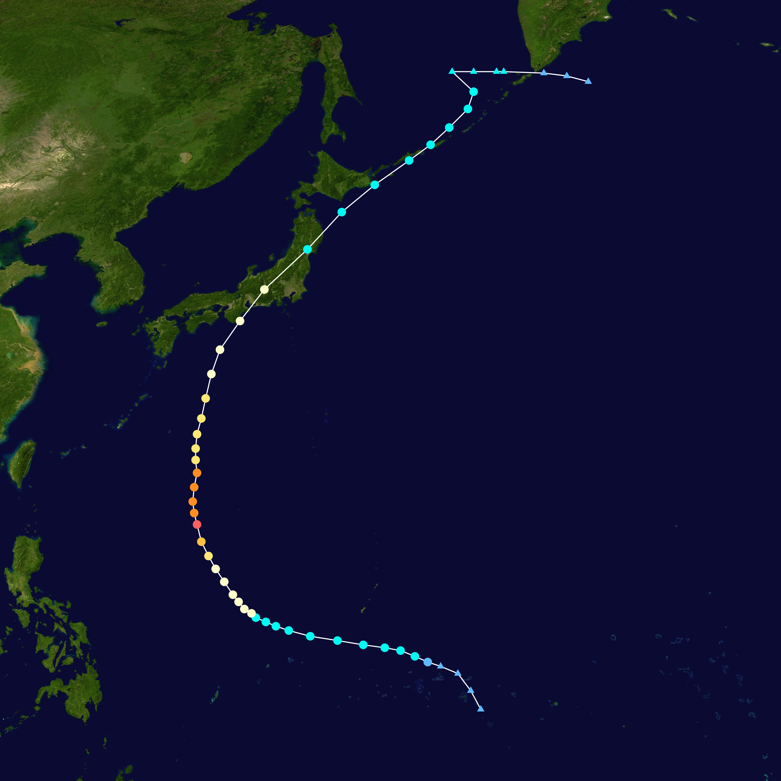 Track map of Typhoon Tess of the 1953 Pacific typhoon season. The points show the location of the storm at 6-hour intervals. The colour represents the storm's maximum sustained wind speeds as classified in the Saffir–Simpson scale (see below), and the shape of the data points represent the nature of the storm, according to the legend below. Saffir–Simpson scale Tropical depression≤38 mph≤62 km/h Category 3111–129 mph178–208 km/h Tropical storm39–73 mph63–118 km/h Category 4130–156 mph209–251 km/h Category 174–95 mph119–153 km/h Category 5≥157 mph≥252 km/h Category 296–110 mph154–177 km/h Unknown Storm type Tropical cyclone Subtropical cyclone Extratropical cyclone / Remnant low / Tropical disturbance / Monsoon depression